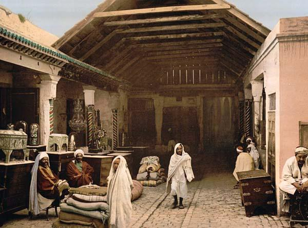 Photograph of a bazaar, Tunis, Tunisia. This color photochrome print was taken in 1899 in Tunis, Tunisia.